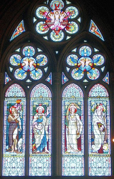 Eaton Hall stained glass